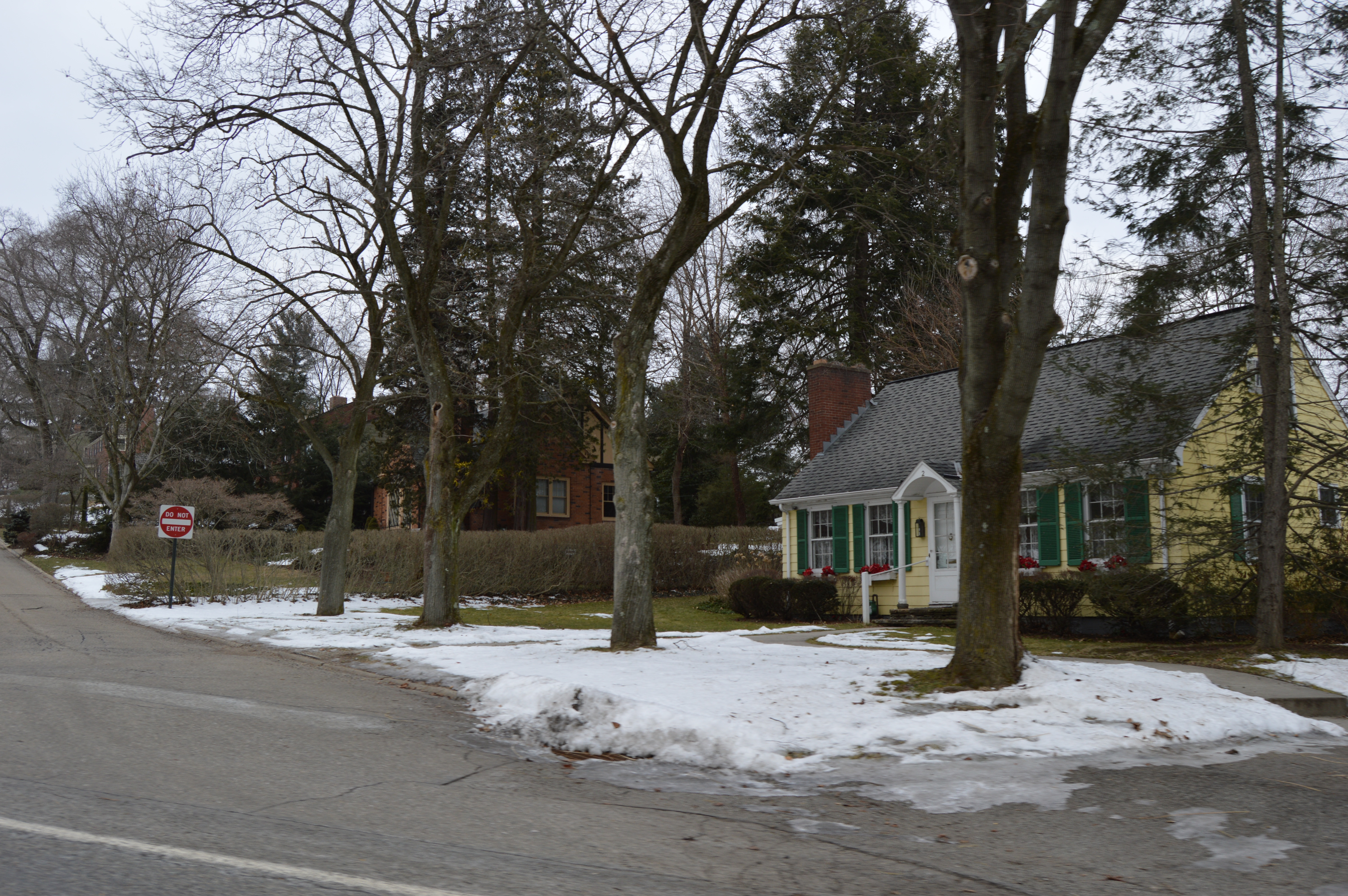 Houses on the northern side of Lynton Lane, seen from New Brighton Road, in Ben Avon Heights, Pennsylvania, United States.